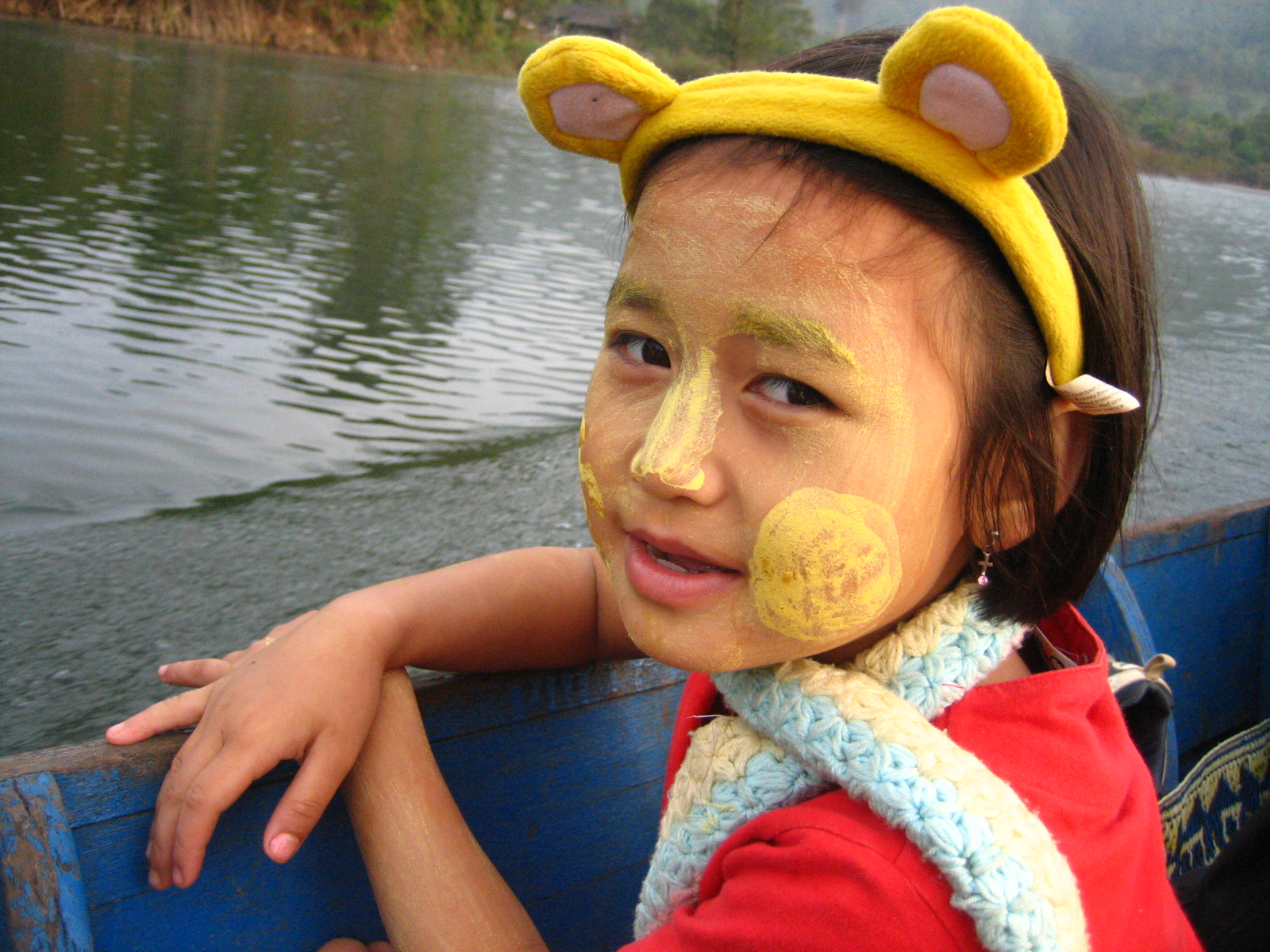 A picture of a Karen child (an ethnic group in Burma and Thailand) with Thanaka on her face. Picture was taken near the Karen village of Pilokkhi in Thailand near the Myanmar border with a Canon Power Shot SD450 Digital Elph camera and modified using a Paint Shop program on a laptop computer.